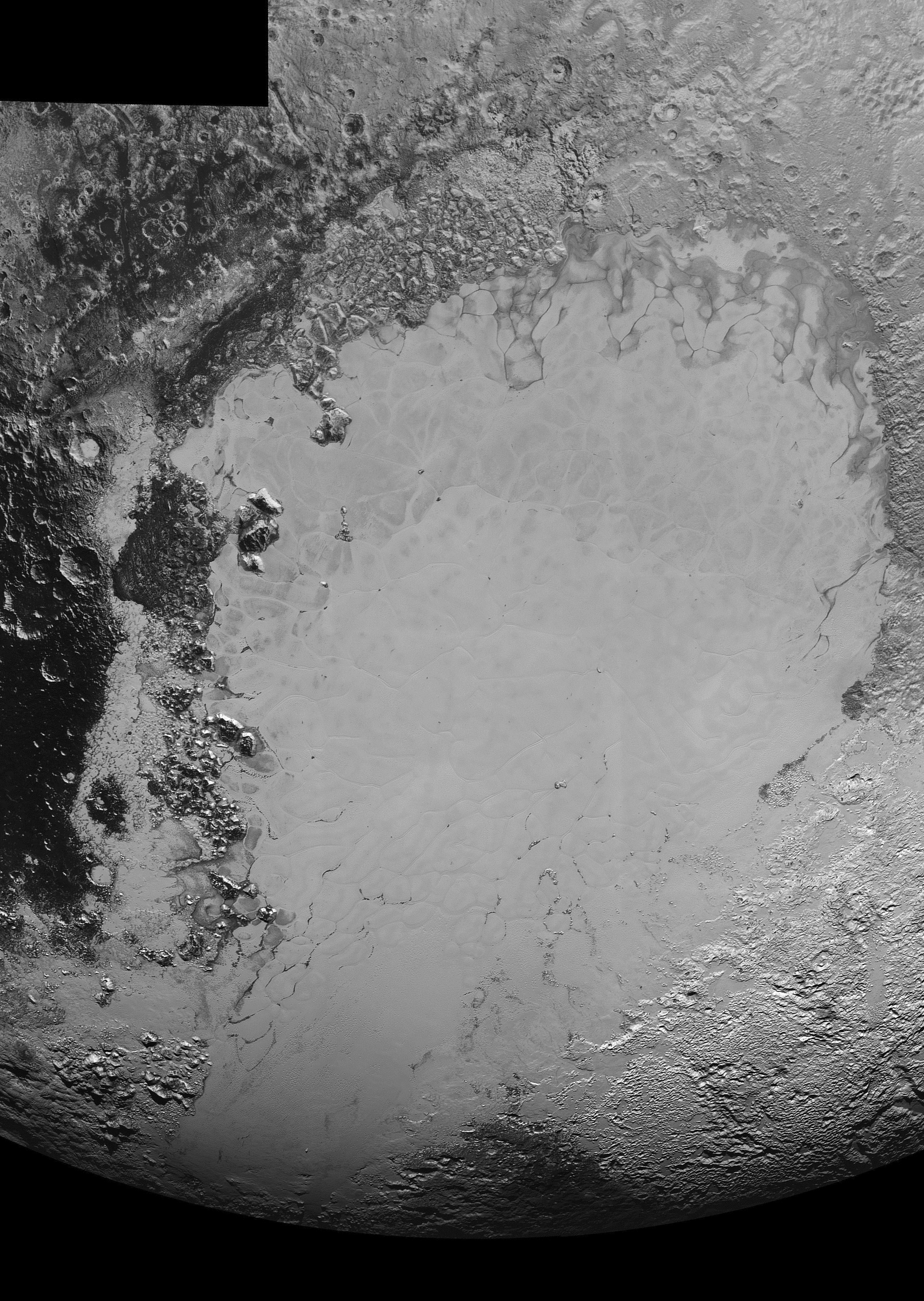 Mosaic of high-resolution LORRI images of Pluto, sent back from NASA's New Horizons spacecraft from Sept. 5 to 7, 2015. The image is dominated by the informally-named icy plain Sputnik Planum, the smooth, bright region across the center. This image also features a tremendous variety of other landscapes surrounding Sputnik. The smallest visible features are 0.5 miles (0.8 kilometers) in size, and the mosaic covers a region roughly 1,000 miles (1600 kilometers) wide. The image was taken as New Horizons flew past Pluto on July 14, 2015, from a distance of 50,000 miles (80,000 kilometers). The Johns Hopkins University Applied Physics Laboratory in Laurel, Maryland, designed, built, and operates the New Horizons spacecraft, and manages the mission for NASA's Science Mission Directorate. The Southwest Research Institute, based in San Antonio, leads the science team, payload operations and encounter science planning. New Horizons is part of the New Frontiers Program managed by NASA's Marshall Space Flight Center in Huntsville, Alabama. UPLOADER NOTES: The original NASA image has been modified by the uploader as follows: rotating clockwise 90°, extending the lower border by 154 pixels, and converting from TIFF to JPEG format. North is to the upper right.